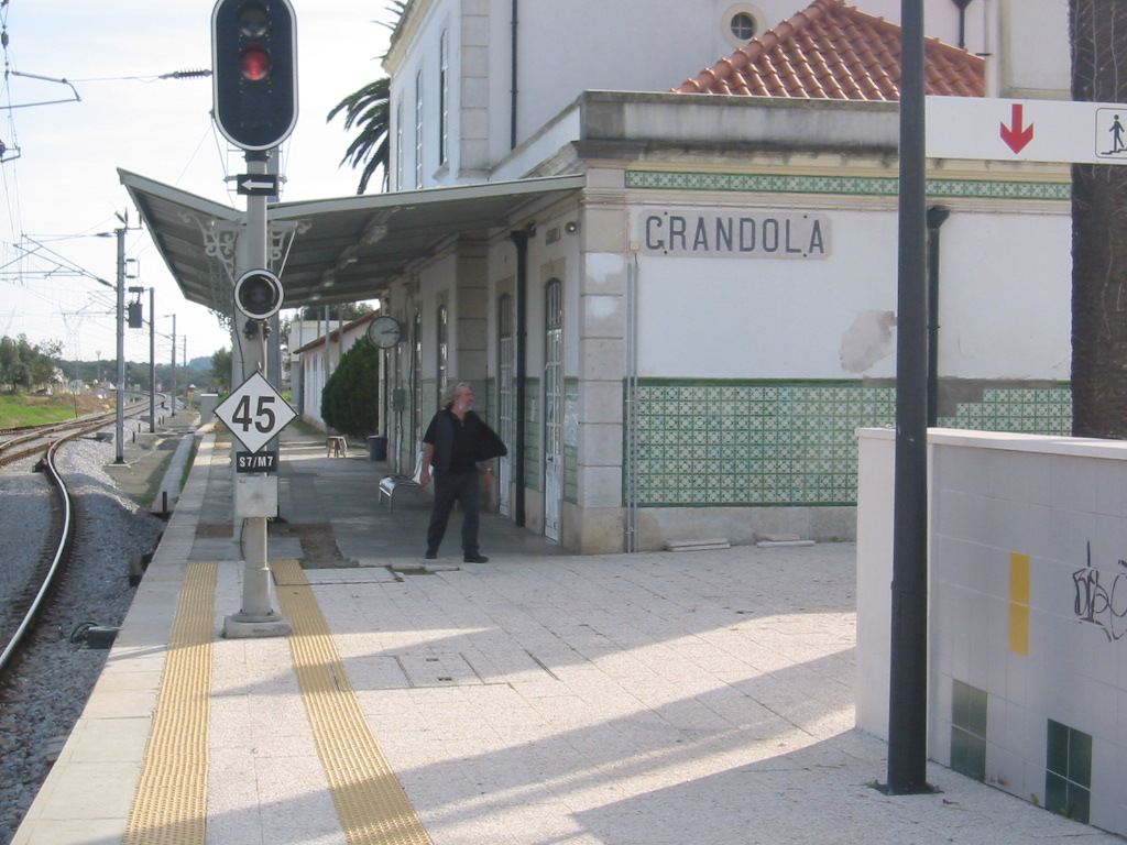 Renovated Station of Grândola